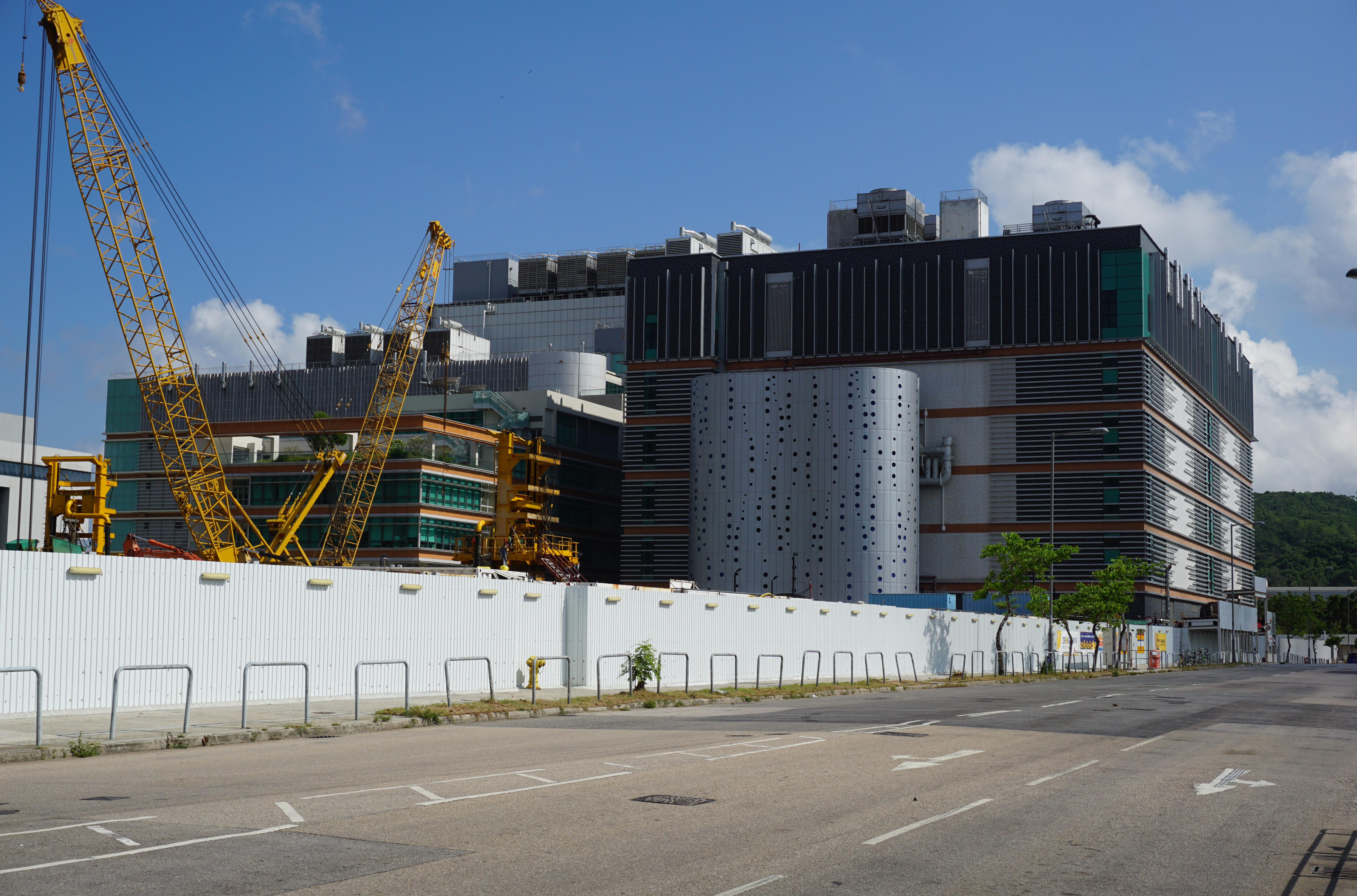 NTT Communications Financial Data Centre in Tai Chik Sha, Hong Kong.